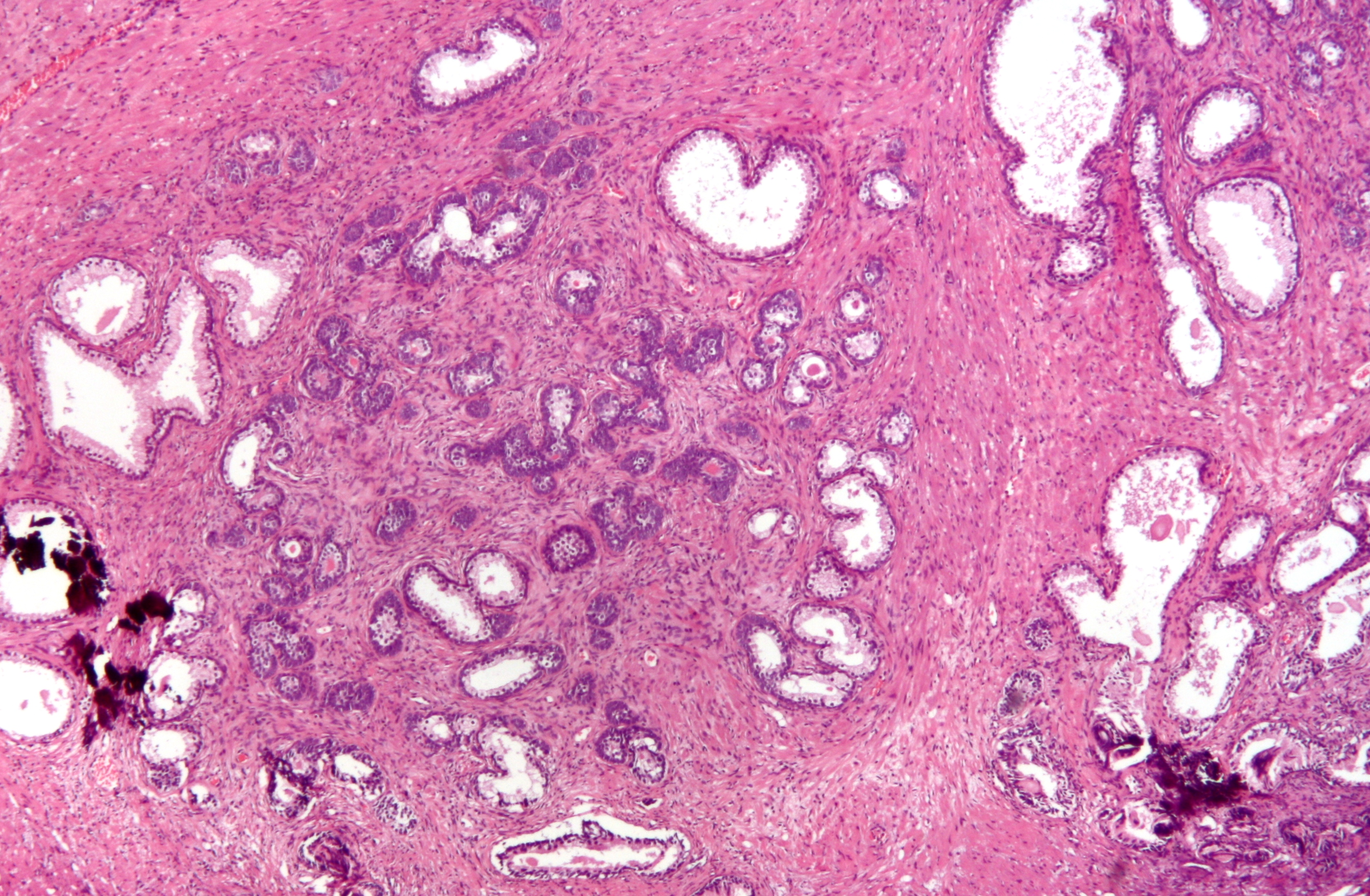 Micrograph of nodular hyperplasia of the prostate, also known as benign prostatic hyperplasia (BPH) and benign prostatic hypertrophy. H&E stain. Prostate currettings from a TURP.